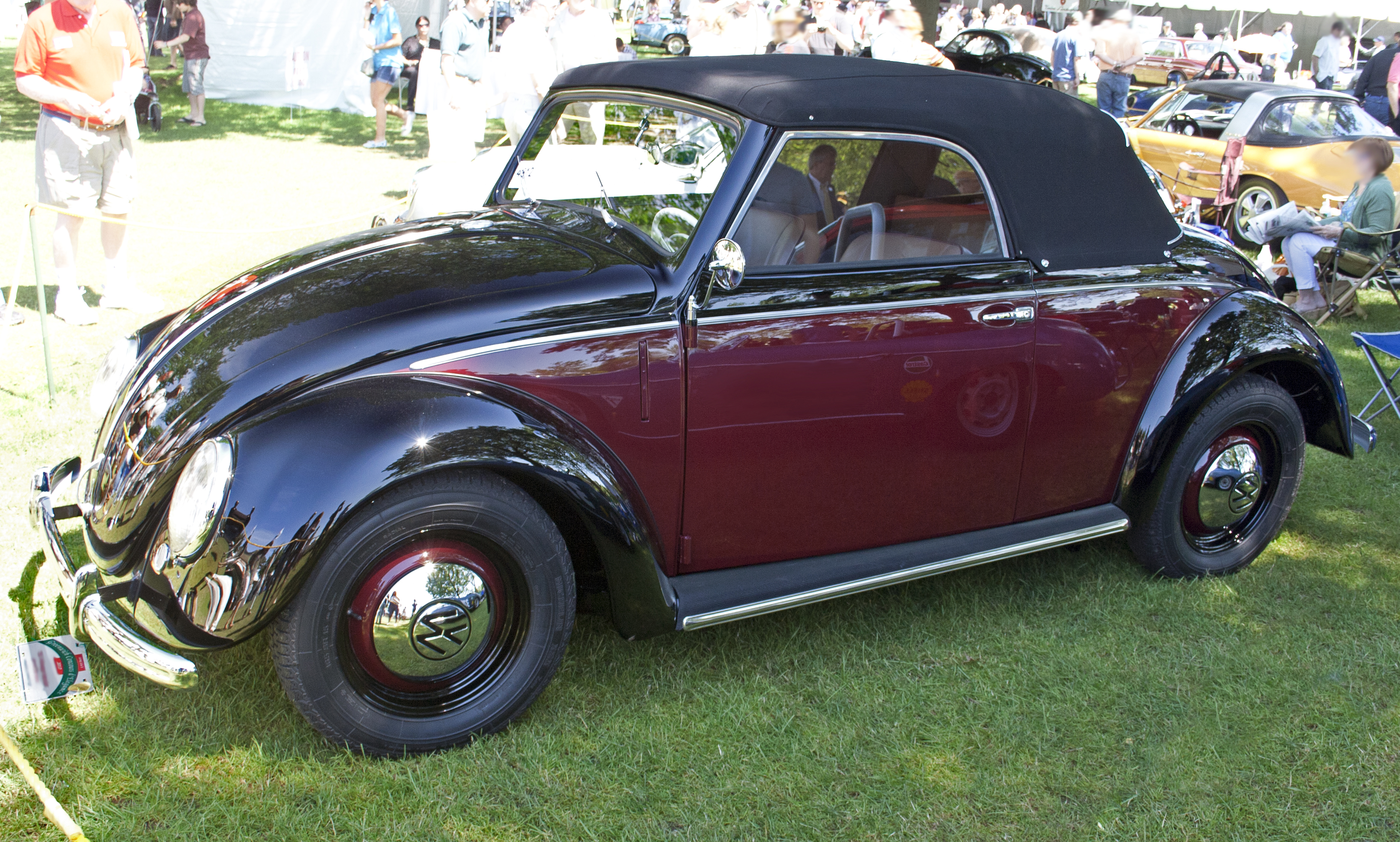 1950 Volkswagen Hebmüller Cabriolet, seen at the 2012 Greenwich Concours d'Elegance.